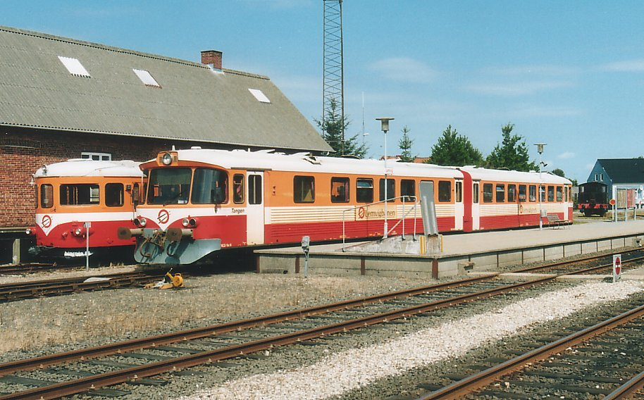 VLTJ YBM17 (left) and Ym14+Ys14 (right) in the station of Lemvig, Denmark